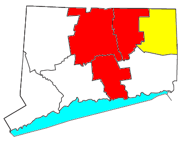 Locator map of the Greater Hartford metro area in the central part of the U.S. state of Connecticut. Red denotes the Hartford-West Hartford-East Hartford Metropolitan Statistical Area, and yellow denotes the part of the Hartford-West Hartford-Willimantic CSA that is not included in Hartford-West Hartford-East Hartford.